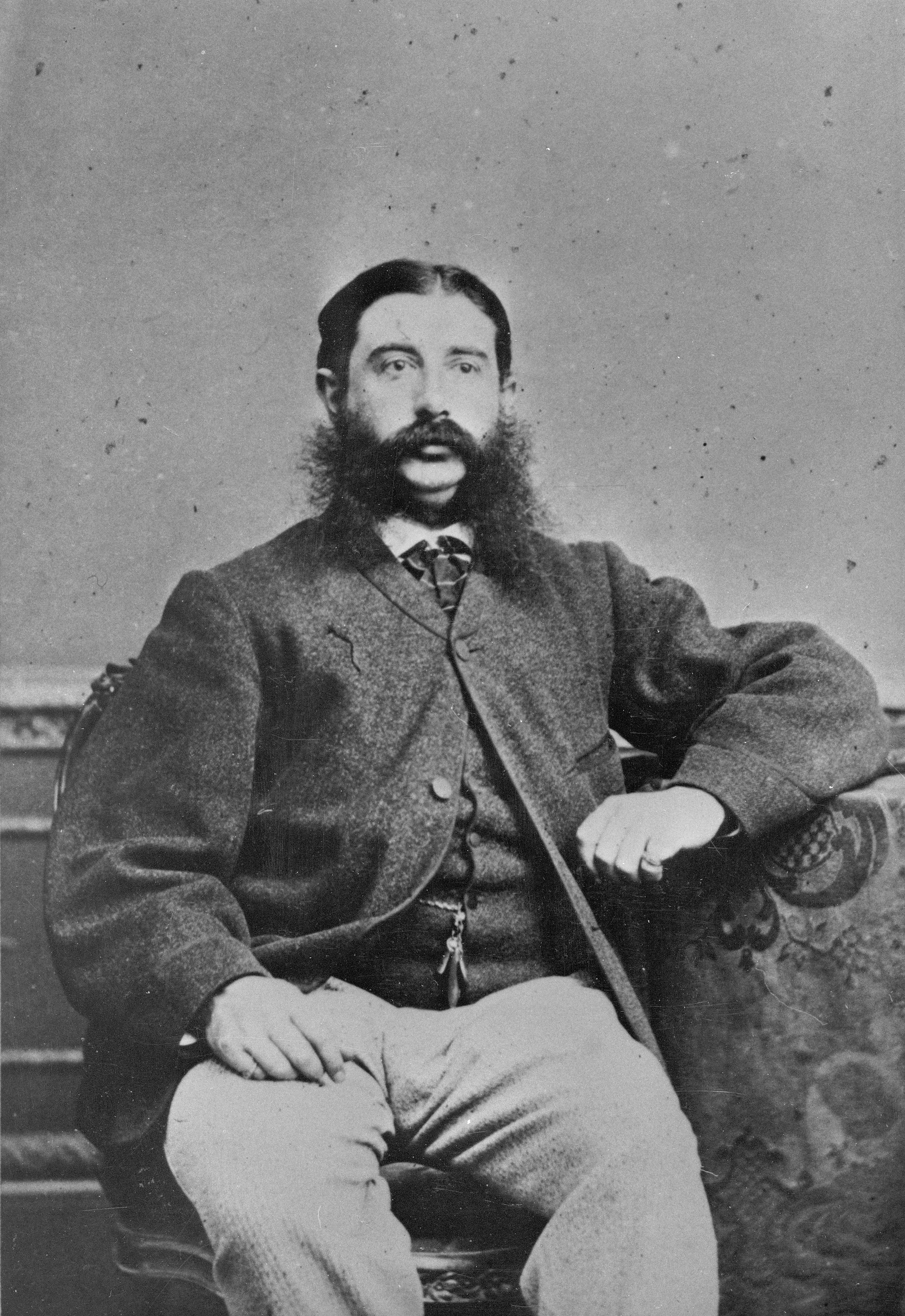 Sir Julius Vogel, ca 1865